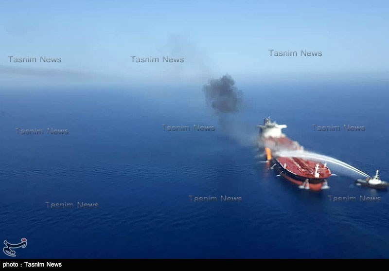 June 2019 Gulf of Oman incident